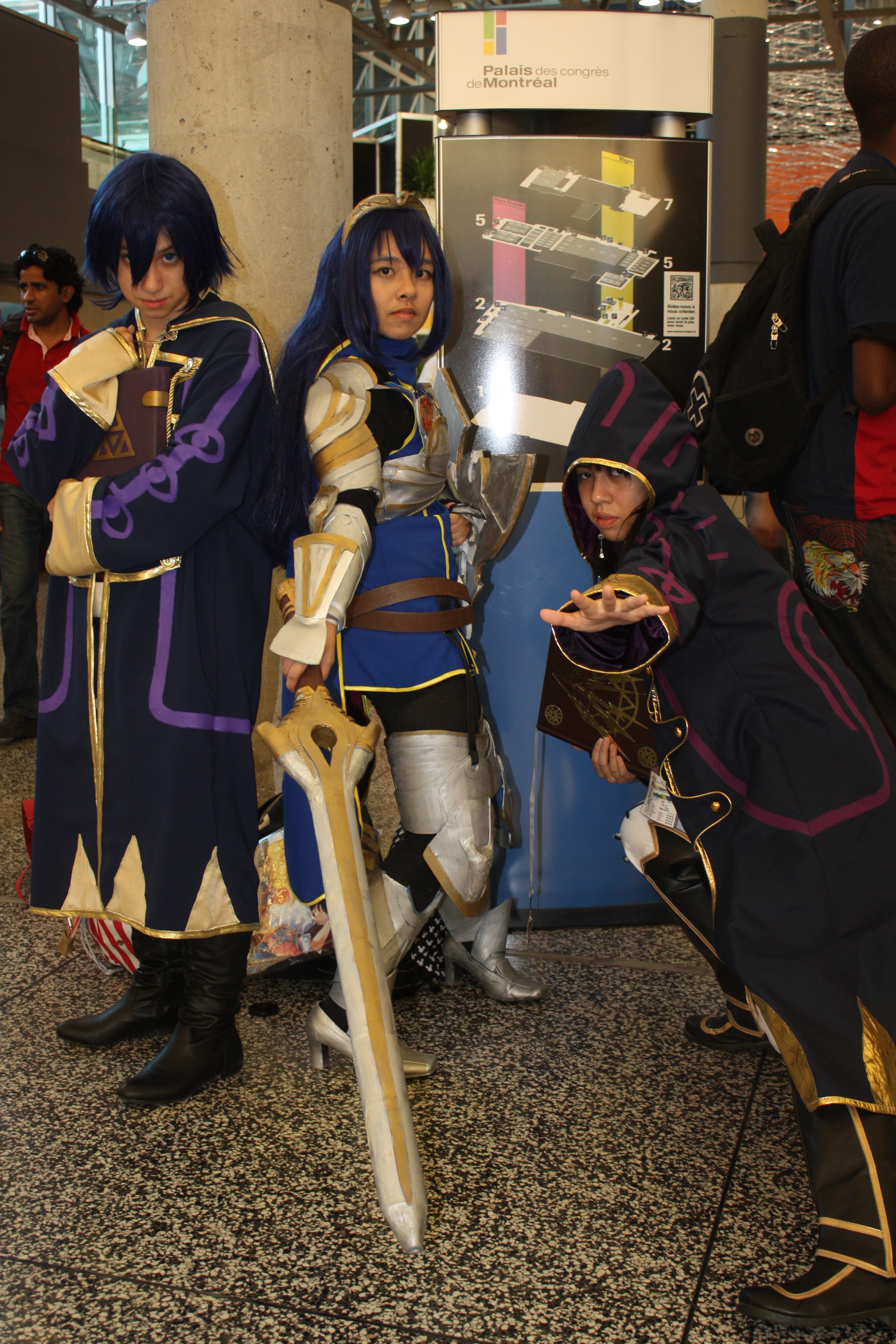 Otakuthon 2014: Lucina and Robin (Fire Emblem)